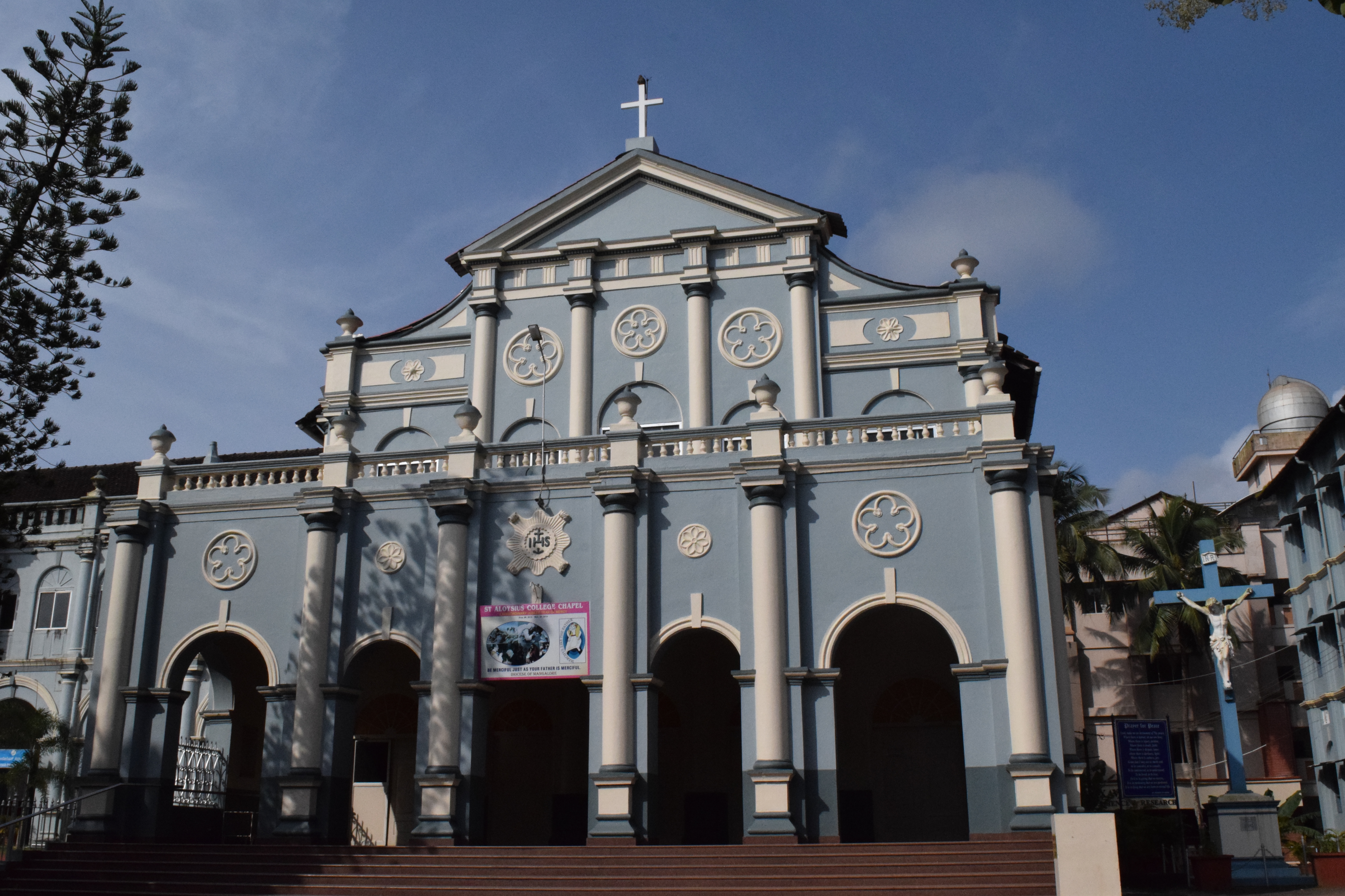 Outside view of St.Aloysius Chapel